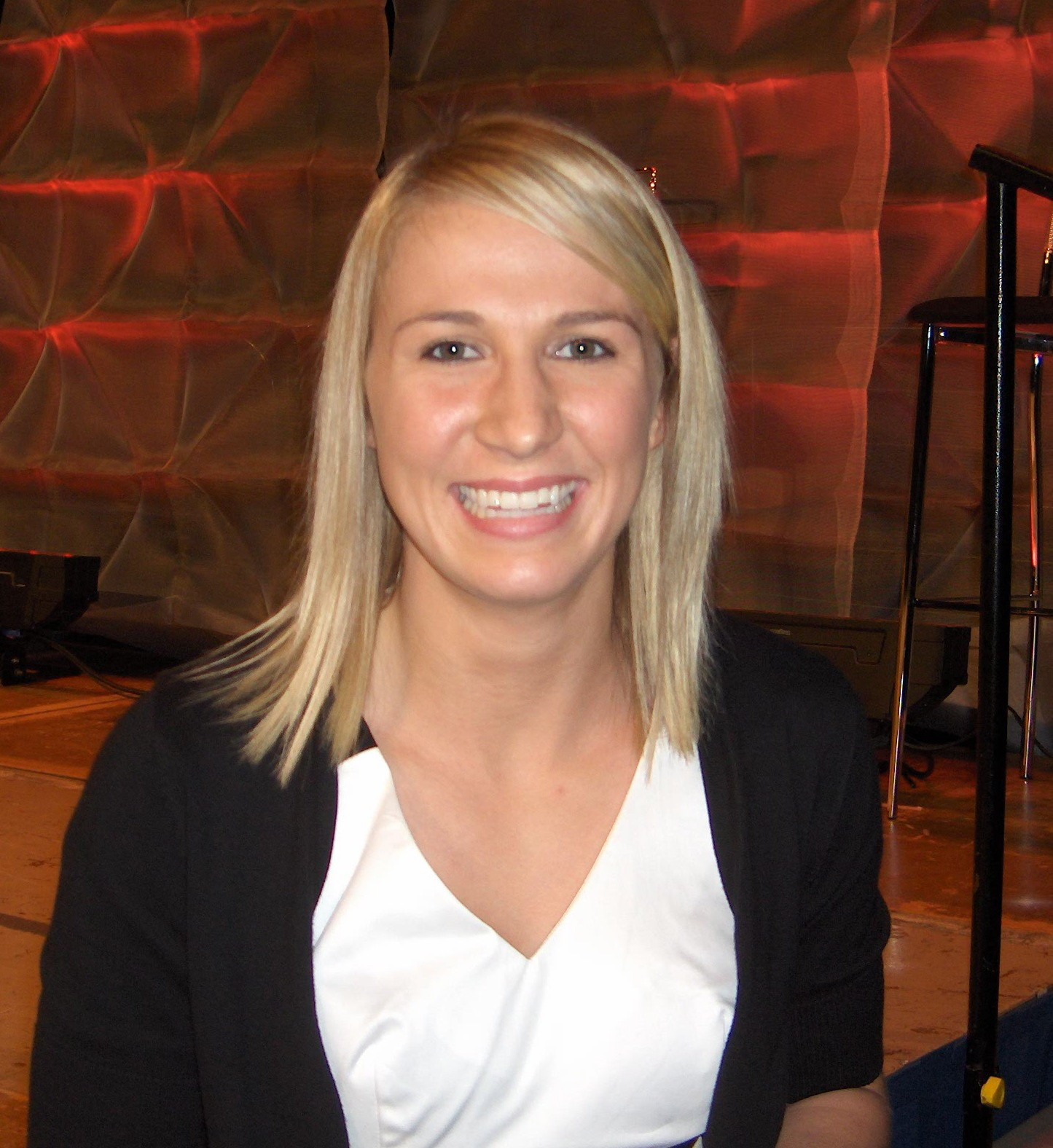 Photo of Courtney Vandersloot taken at the Inaugural WBCA Award Show, Monday 4 April 2011 in the Sagamore Ballroom of the Indiana Convention Center, Indianapolis Indiana. Vandersloot was the recipient of the Frances Pomeroy Naismith Award.